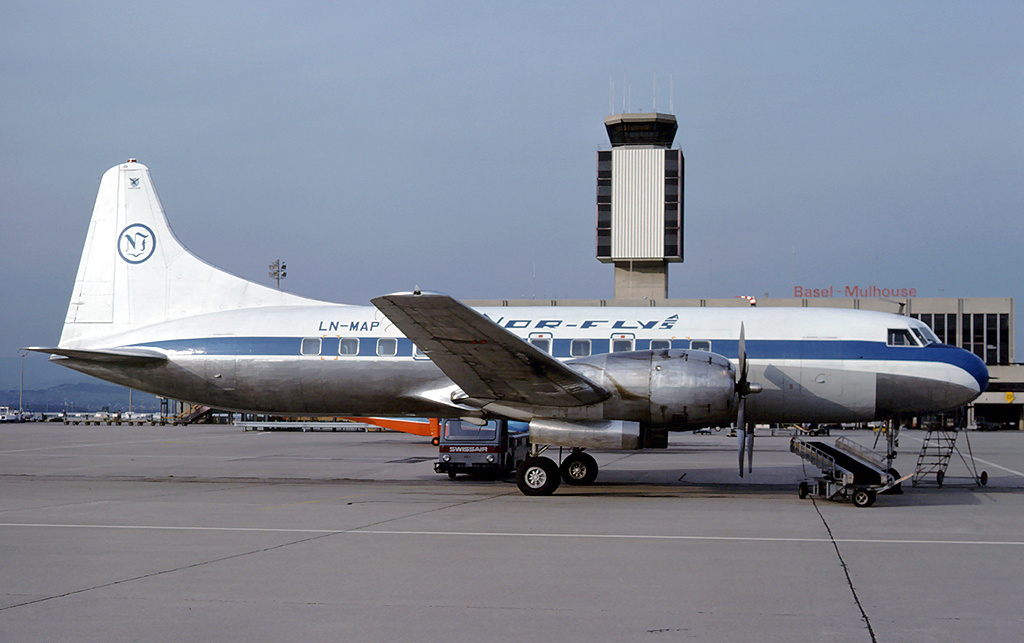 Nor-Fly Convair 440-75 Metropolitan LN-MAP at Euroairport